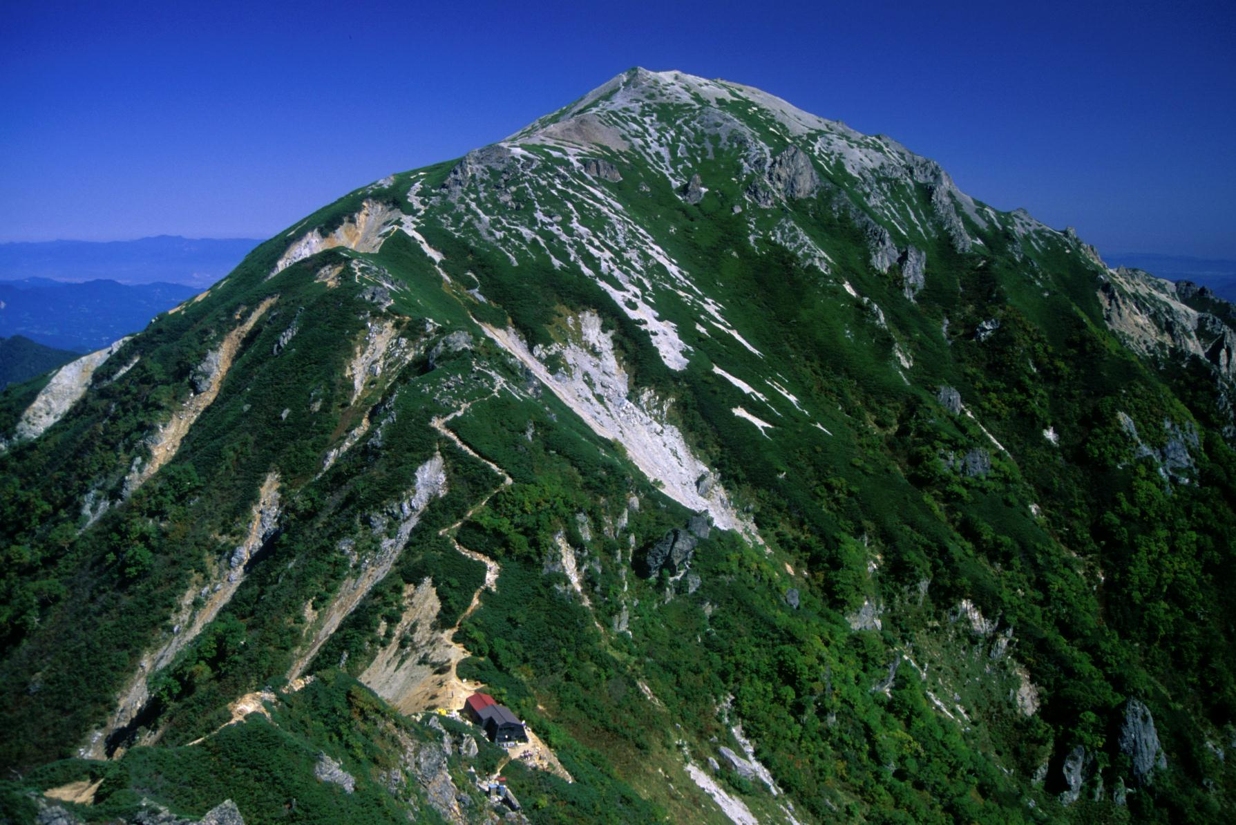 Mount Renge and Harinokigoya seen from Mount Jii in Hida Mountains, Japan.